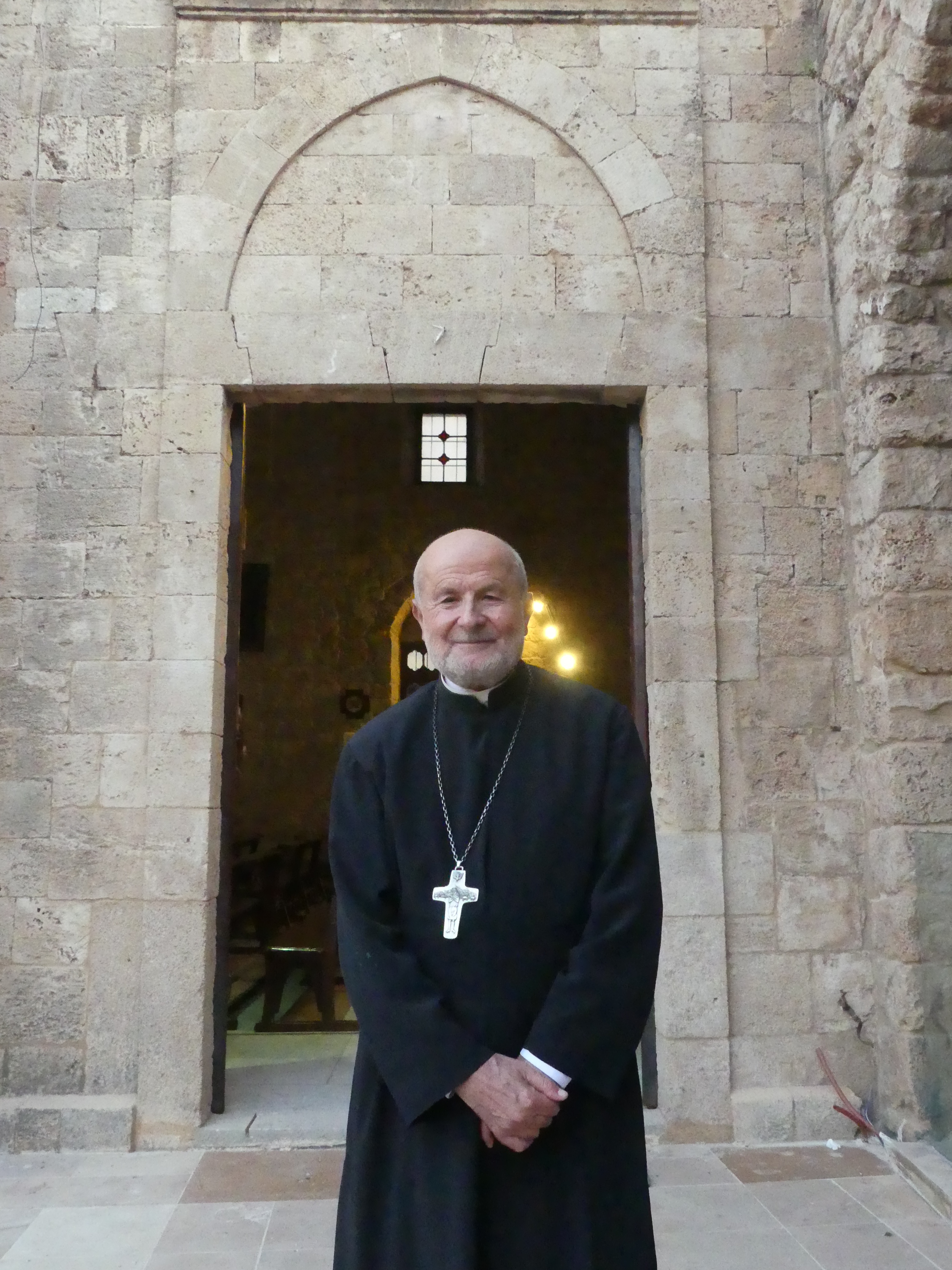 The Maronite Archbishop of Tyre/Sour (Southern Lebanon) Shukrallah Nabil El Hajj (*1943) in front of the Cathedral "Our Lady of the Seas" (Notre Dame Des Mers)